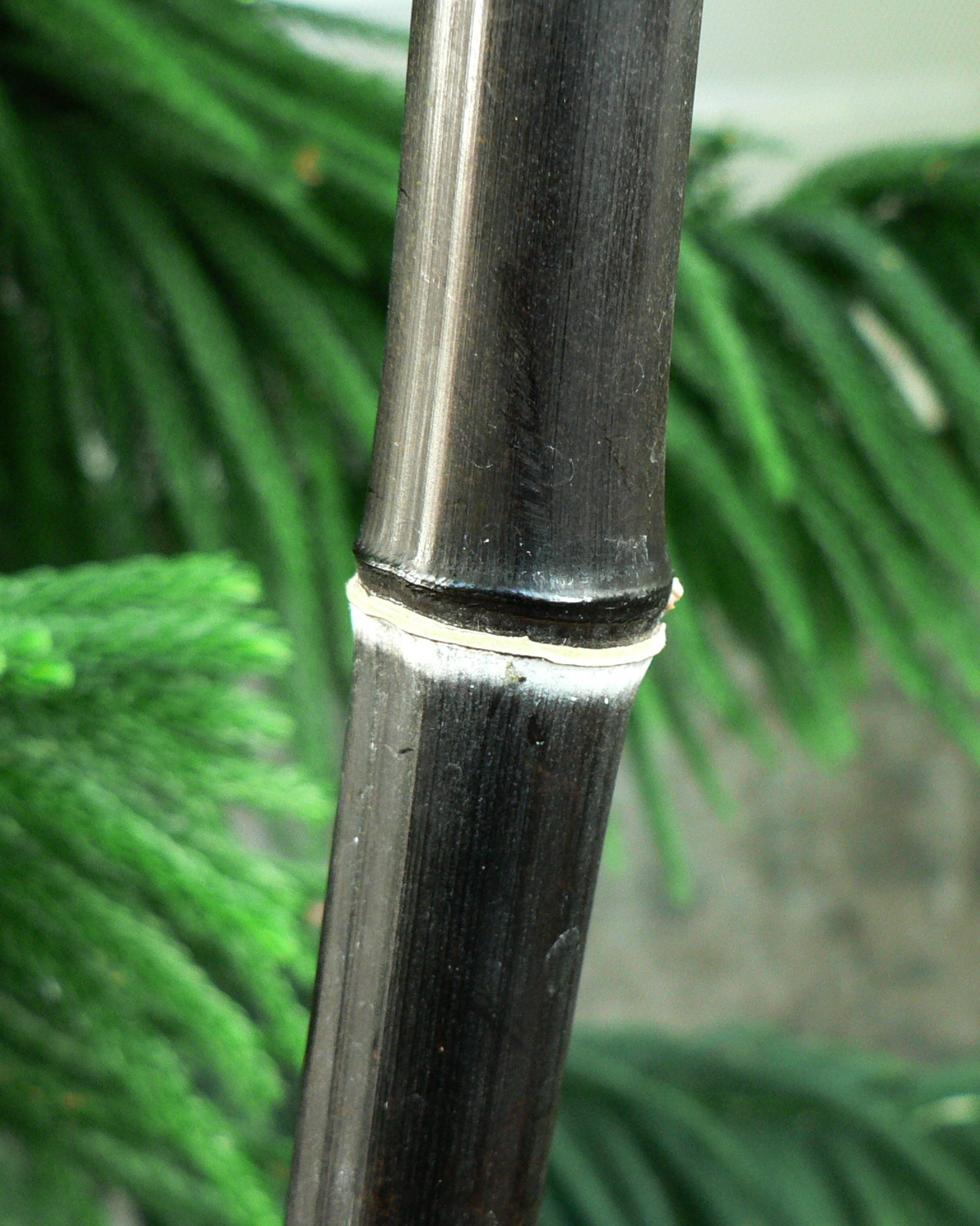 Close-up of a black bamboo (Phyllostachys nigra) stem. Taken in Leamington Spa by Rob Cowie, 10/01/06